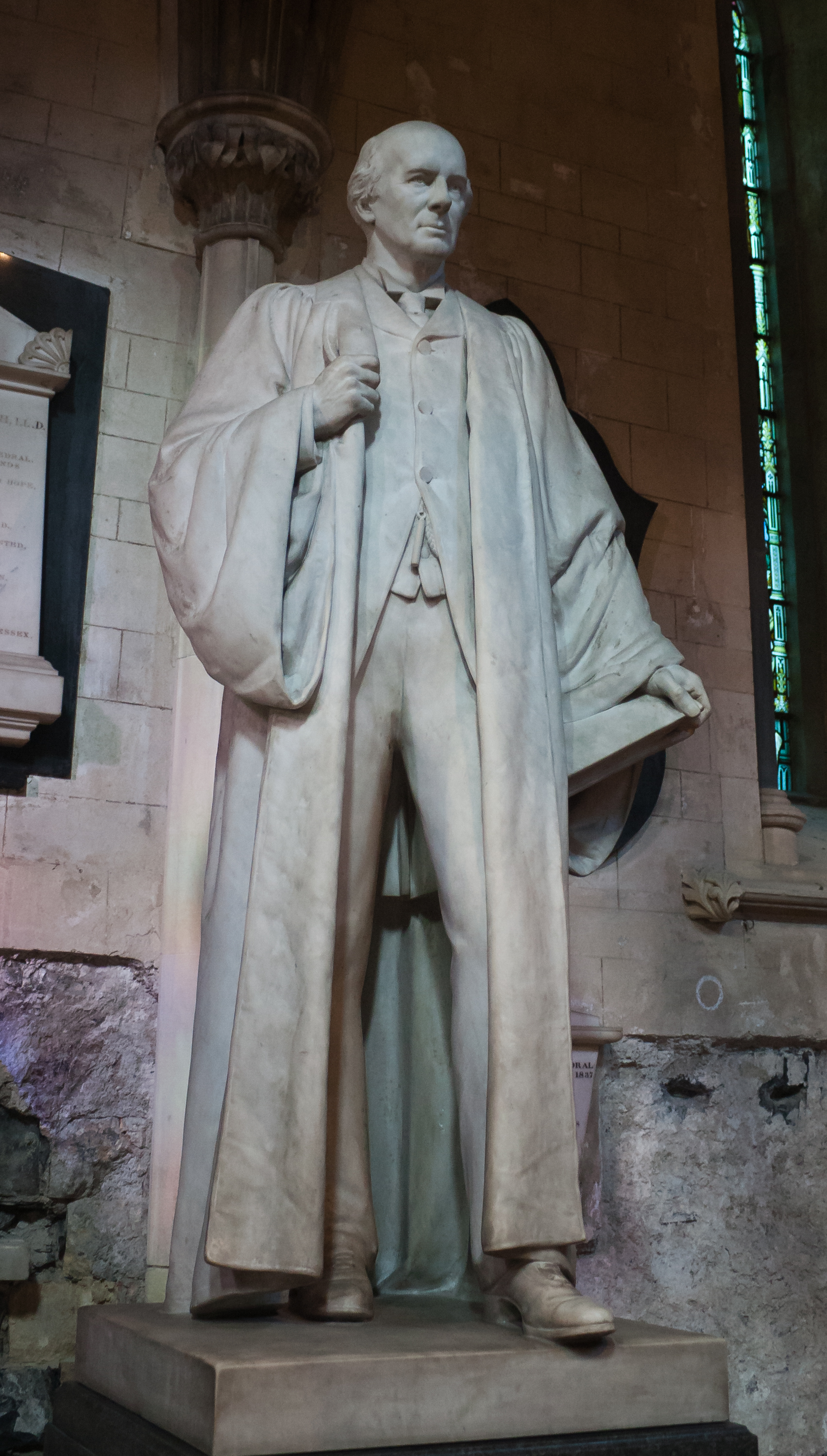 Statue of Gerald Fitzgibbon, sculpted by an unknown artist. The inscription below the statue reads: The Right Hon. Gerald Fitzgibbon, P.C. LL.D., Lord Justice of Appeal, Chancellor of the United Dioceses of Dublin, Glendalough and Kildare. Member of the General Synod of the Church of Ireland from 1874 to 1909. Born 1837 – Died 1909.